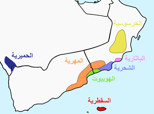 اللغات الجنوبية الحديثة او اللغات الجزرية الجنوبية